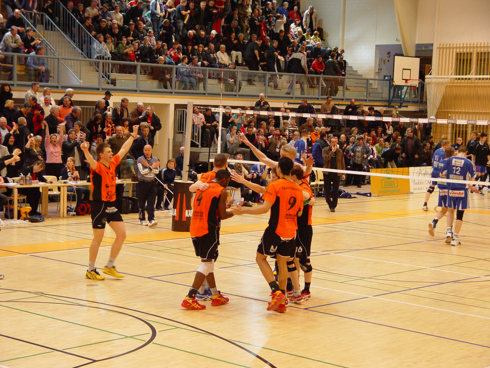 Season 2006-2007 Raision Loimu homegame againts Salon Piivolley